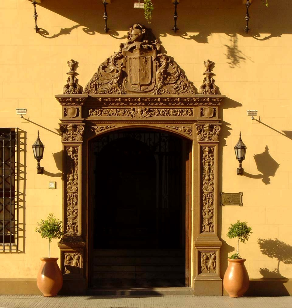 Author: jlazarte Image: Colonial-style door at the Federación Económica bldg., Tucuman City